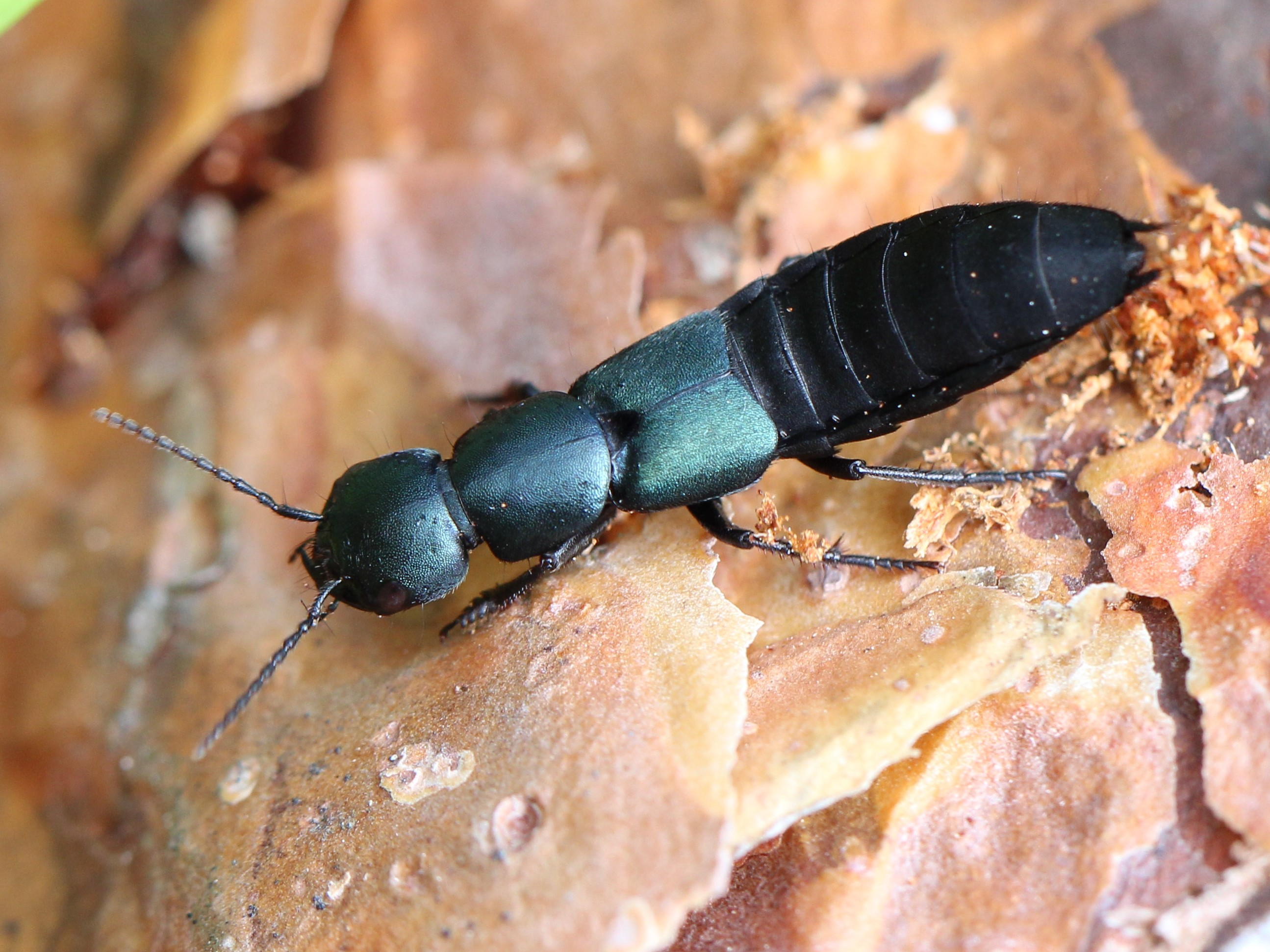 Ocypus ophthalmicus